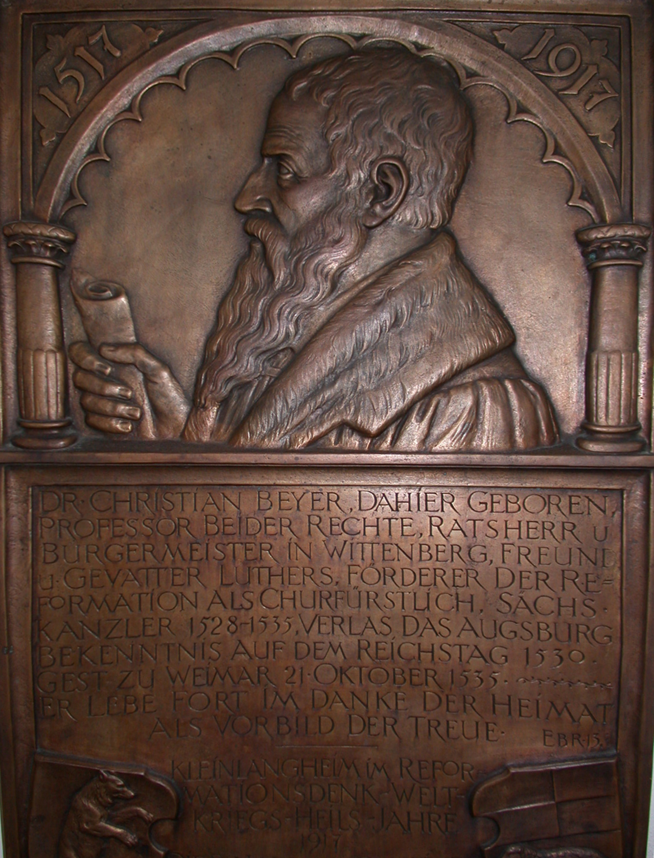 Epitaph of Dr. Christian Beyer in Kleinlangheim, Franconia 220pix tumb